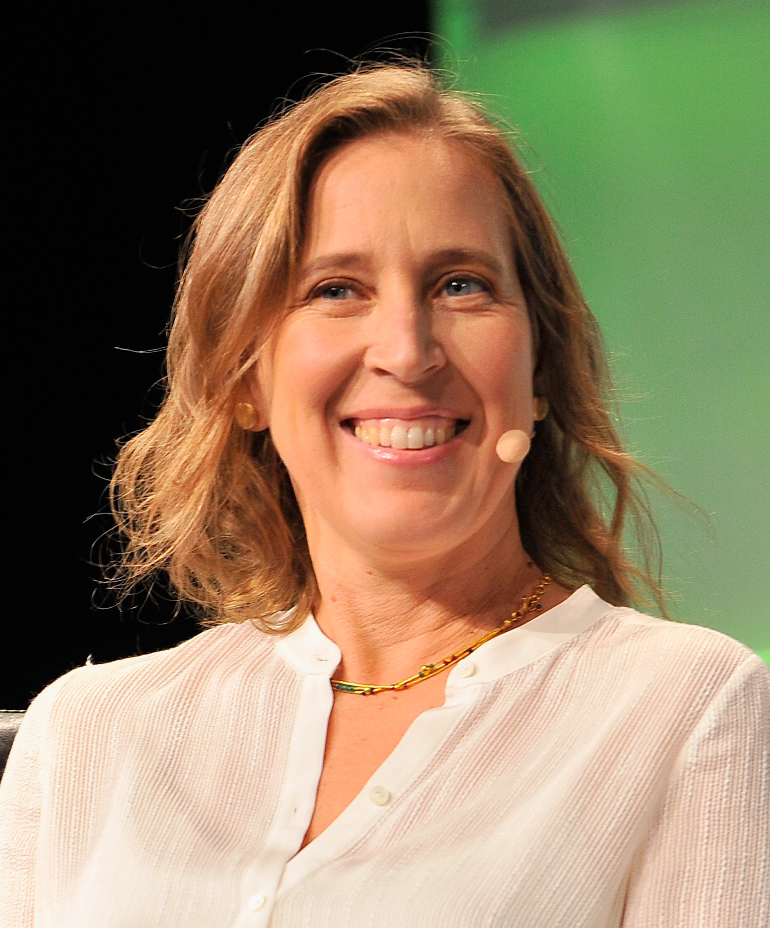 speaks onstage during TechCrunch Disrupt SF 2016 at Pier 48 on September 14, 2016 in San Francisco, California.